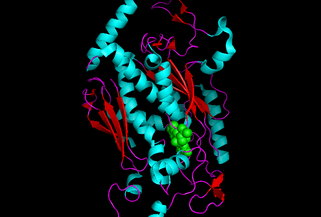 Cartoon structure of one of the for homodimers that make up the chorismate synthase molecule. Elements of tertiary structure are color coded and the FMN molecule is shown in green.